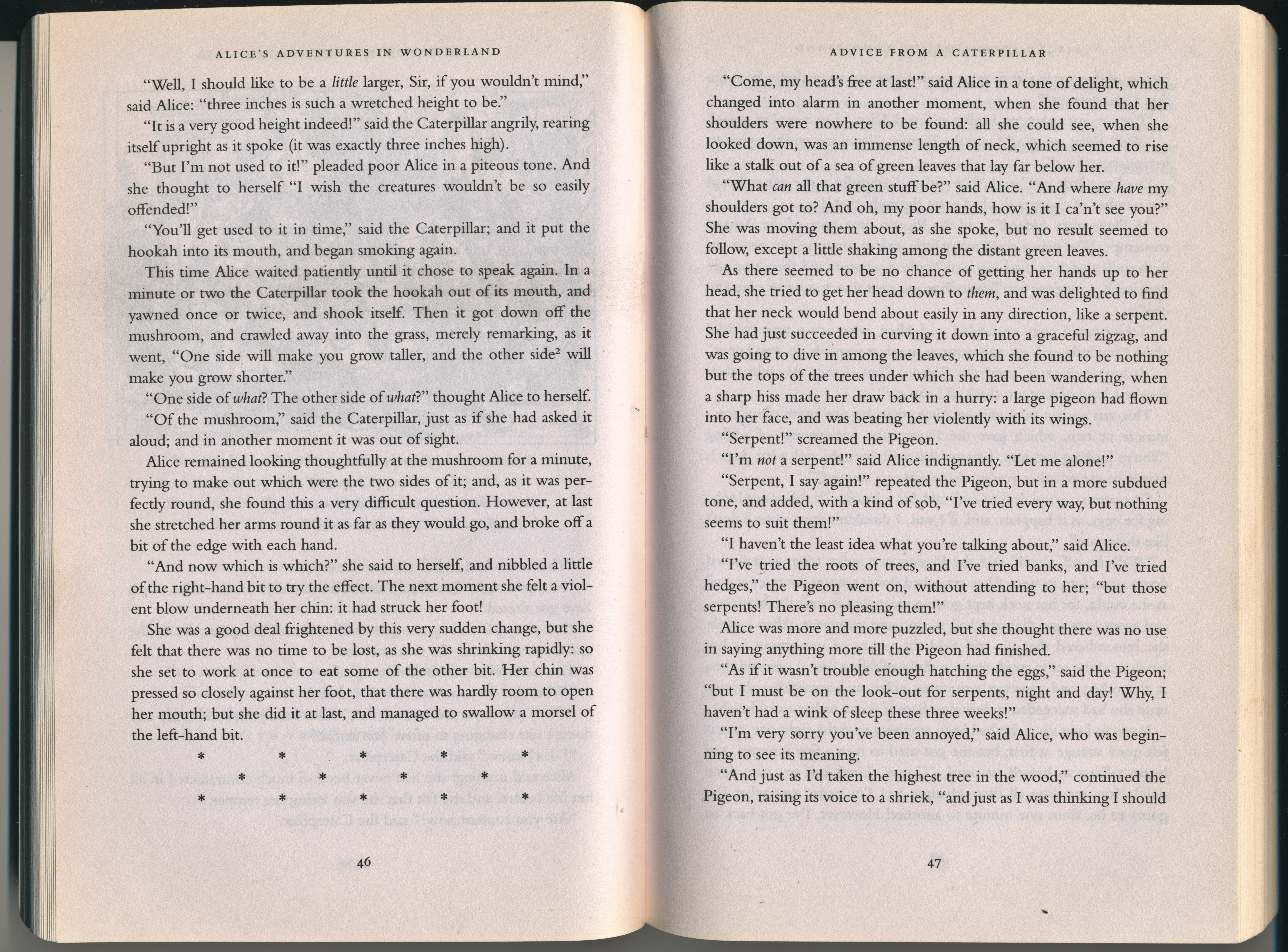 The book Alice in Wonderland (1865), opened to Chapter 5, pages 46 and 47, to illustrate a section break. Alice in Wonderland was first published in 1865 and is now public domain. The complete, illustrated text of the book is available on Wikisource. The image partially visible through the left page is File:Alice 05e.jpg (on page 45), and possibly File:Alice 05d.jpg is visible behind that (p.44).